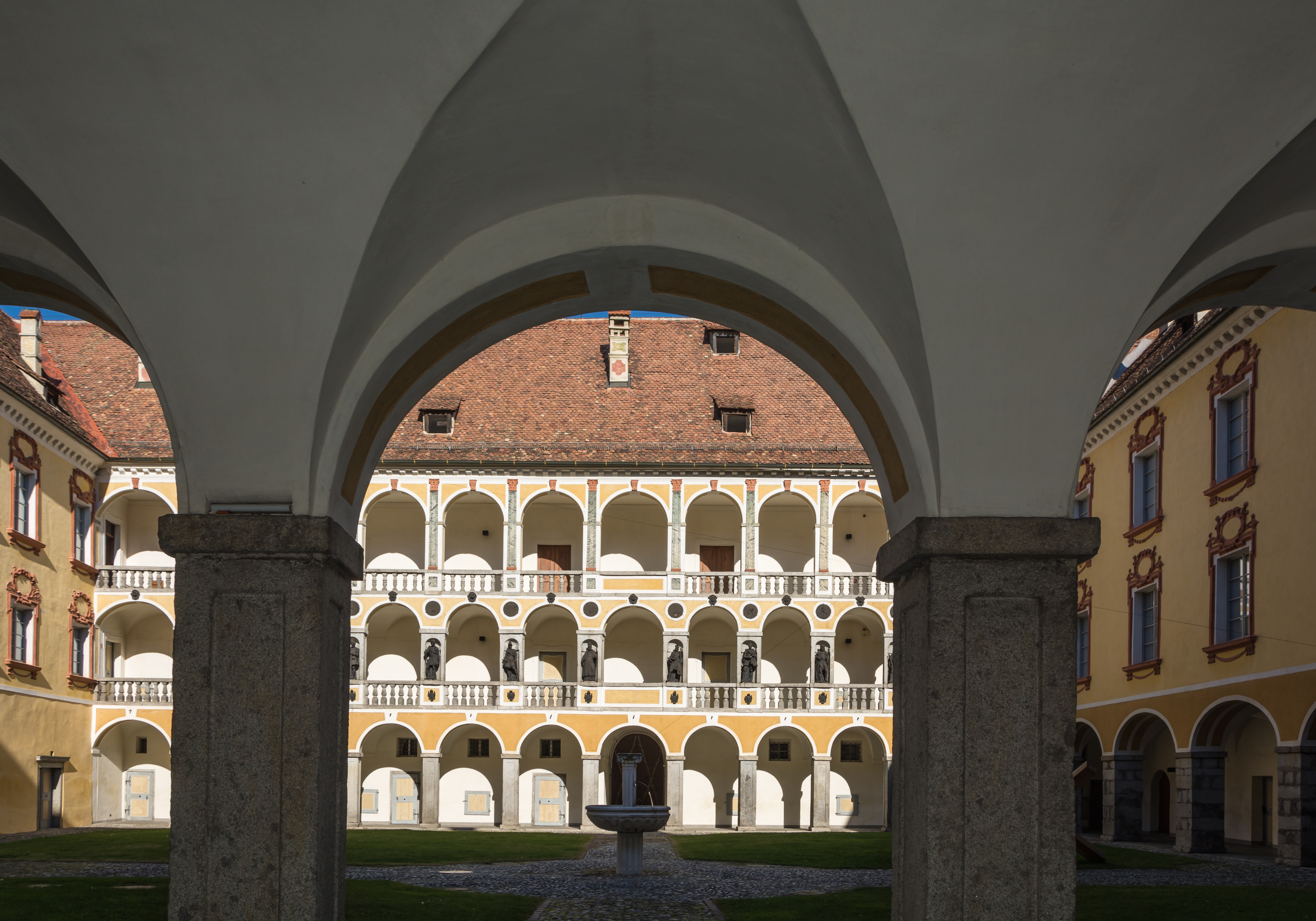 Arcaded courtyard of the Hofburg in Brixen, South Tyrol